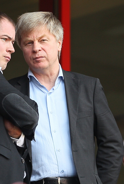 President of Russian Football Union Nikolai Tolstykh in match Spartak - Rubin 18.08.2013